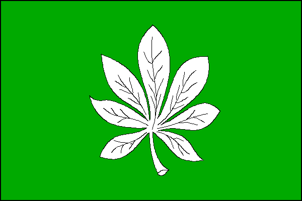 Municipal flag of Lhota village, Kladno District, Czech Republic.